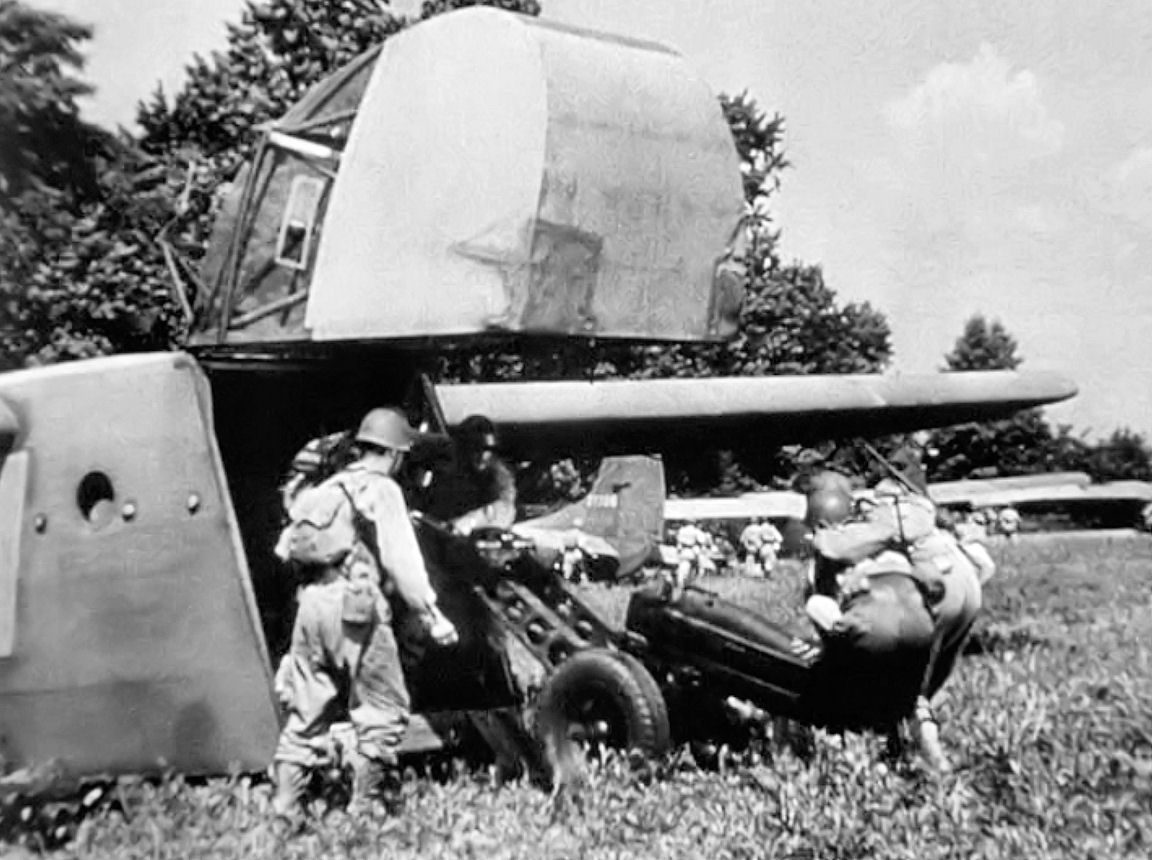 Laurinburg-Maxton Army Air Base Unloading Artillery From CG-4 Glider